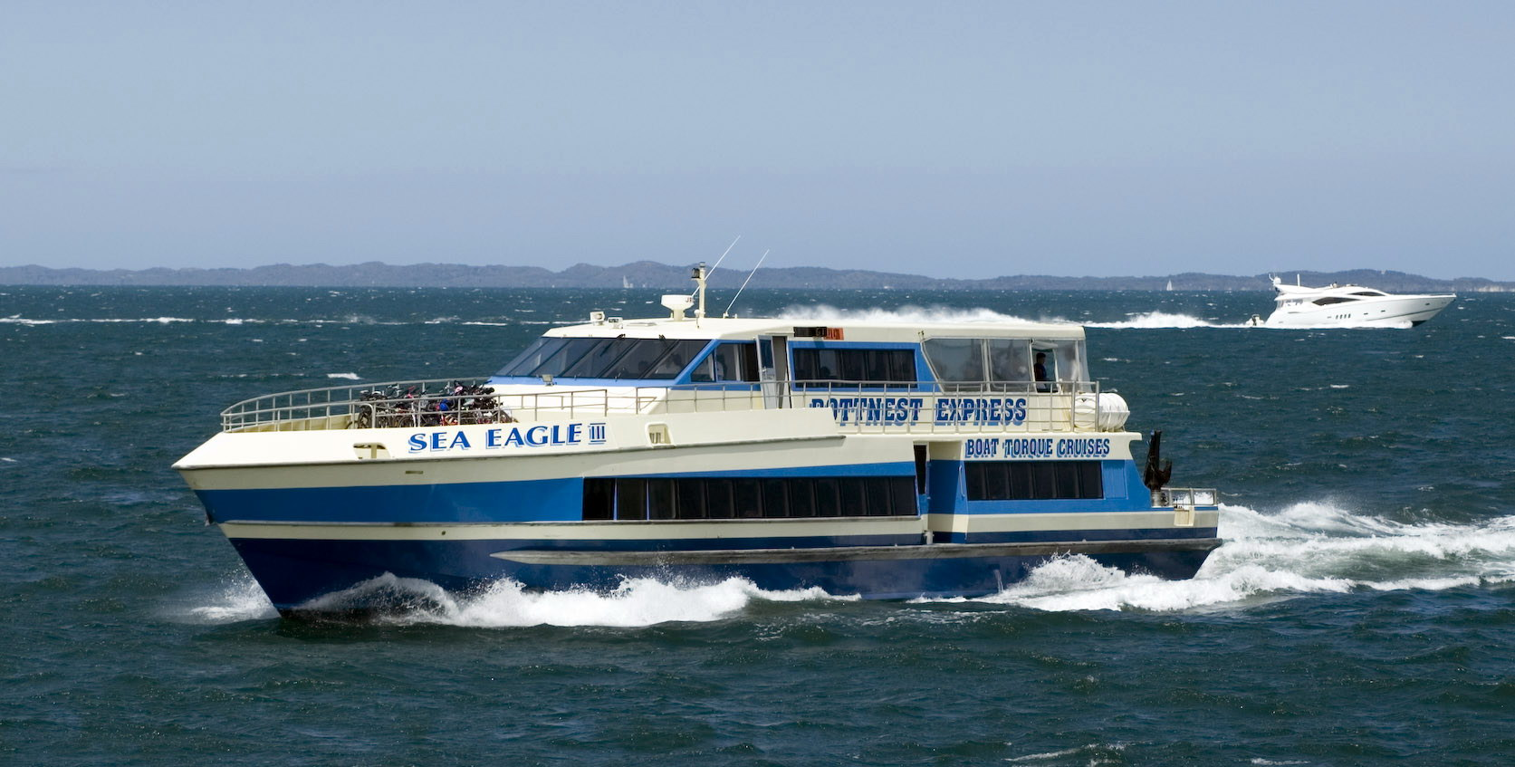 Rottnest Express Sea Eagle III ferry.